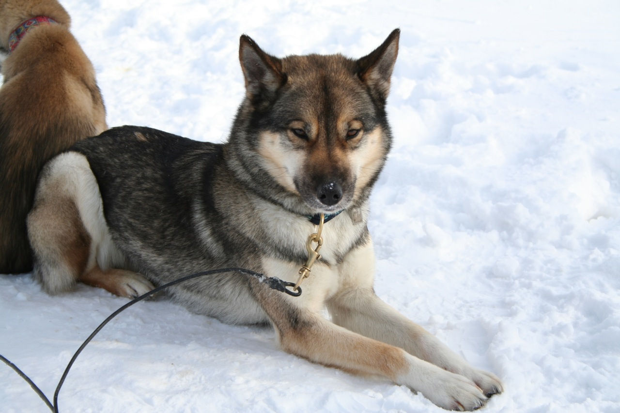 An "agouti" Siberian Husky (I'm slightly hesitant about that identification).